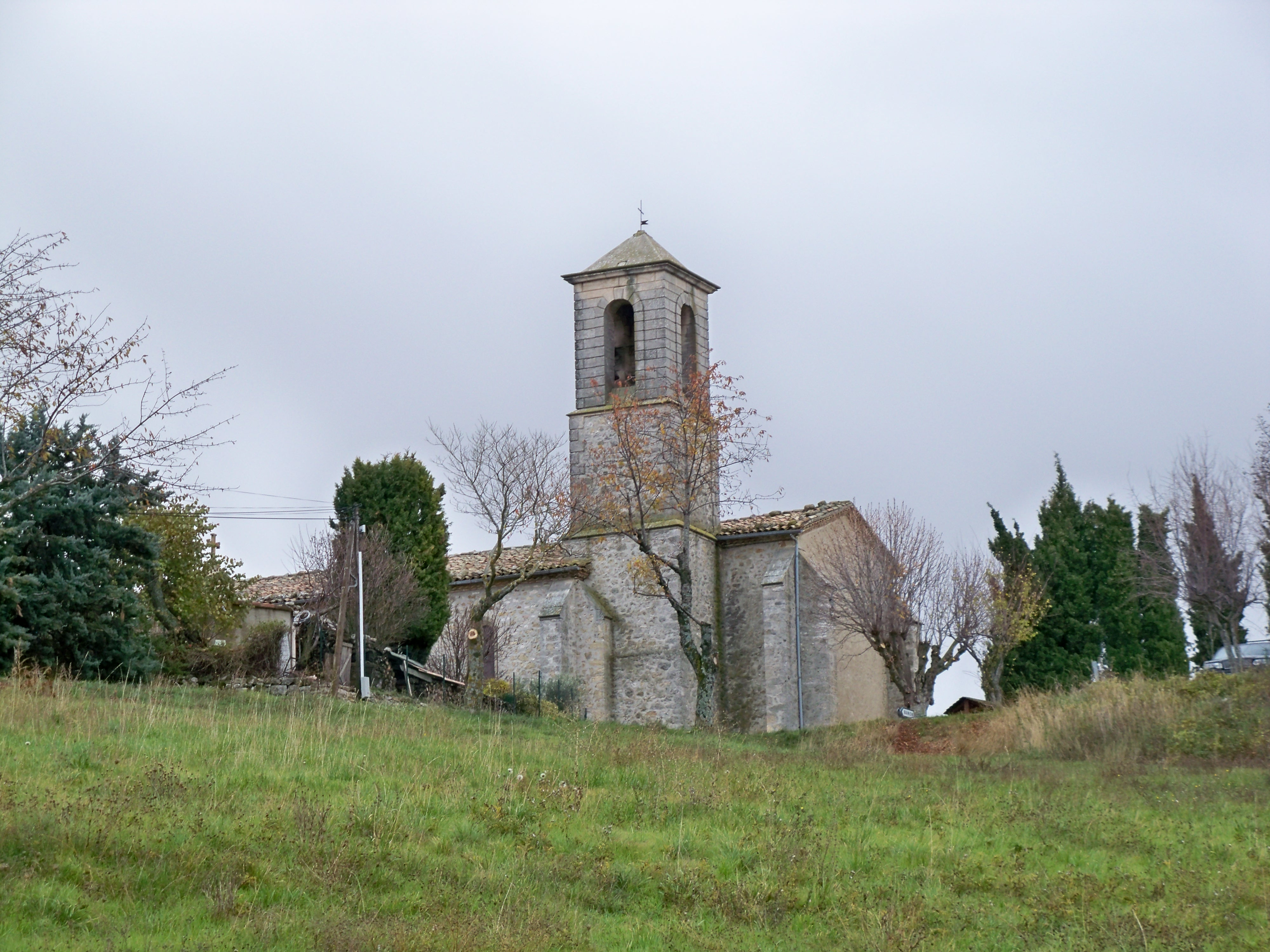 Saint Sebastian, neo-romanesque parish church of Vachères